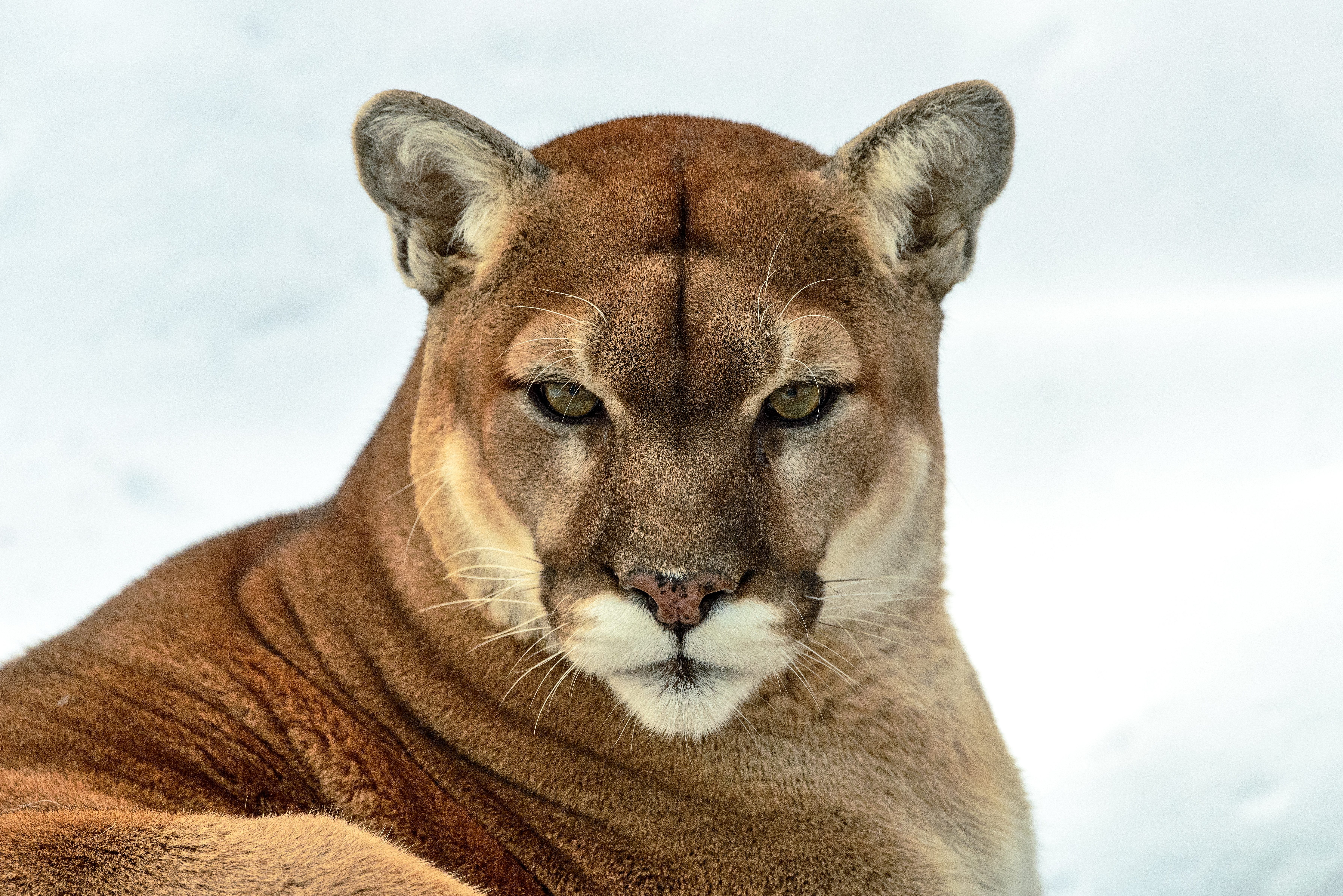 Cougar Smug